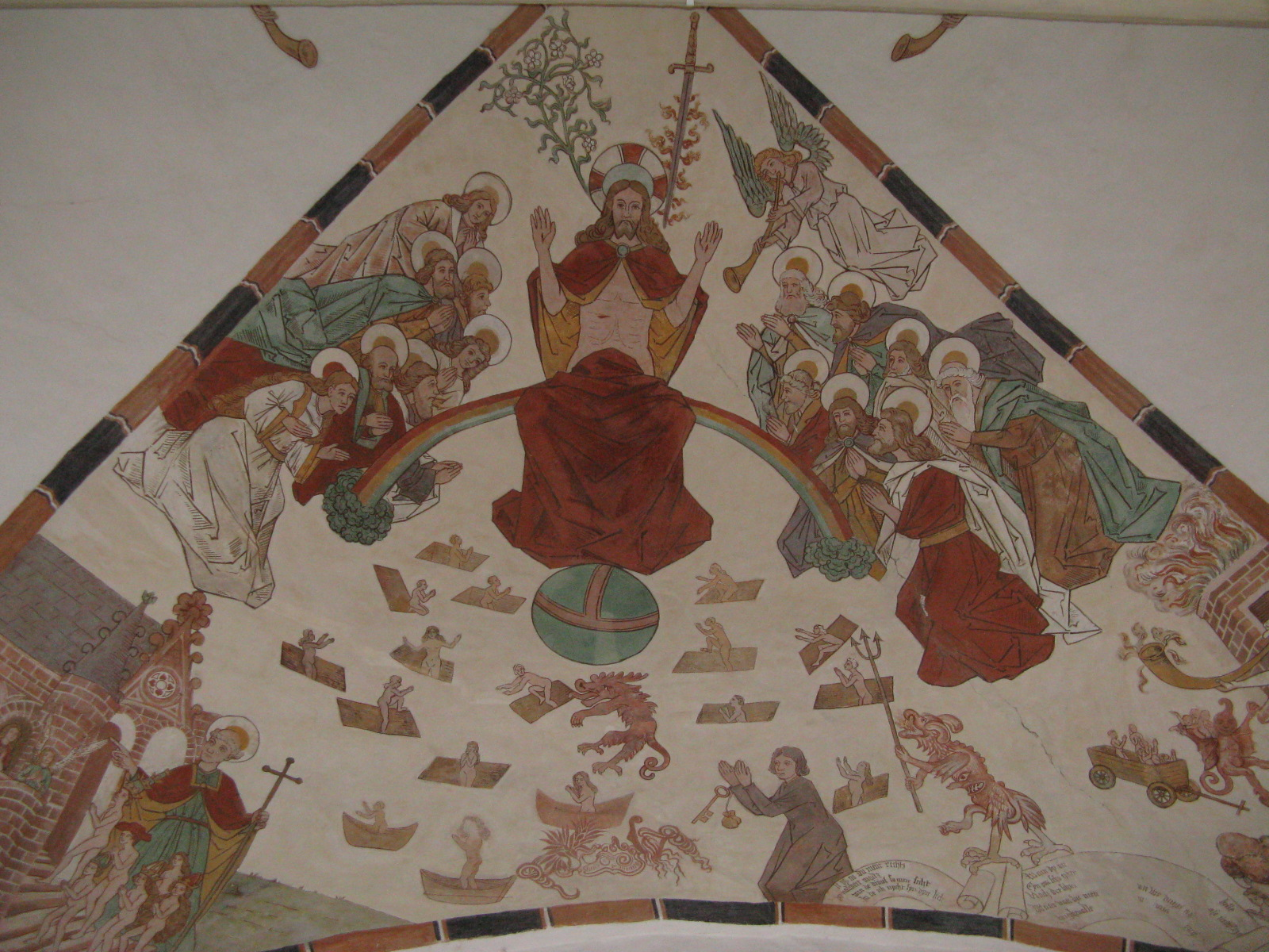 Painted ceiling in the church in Bellin, disctrict Güstrow, Mecklenburg-Vorpommern, Germany